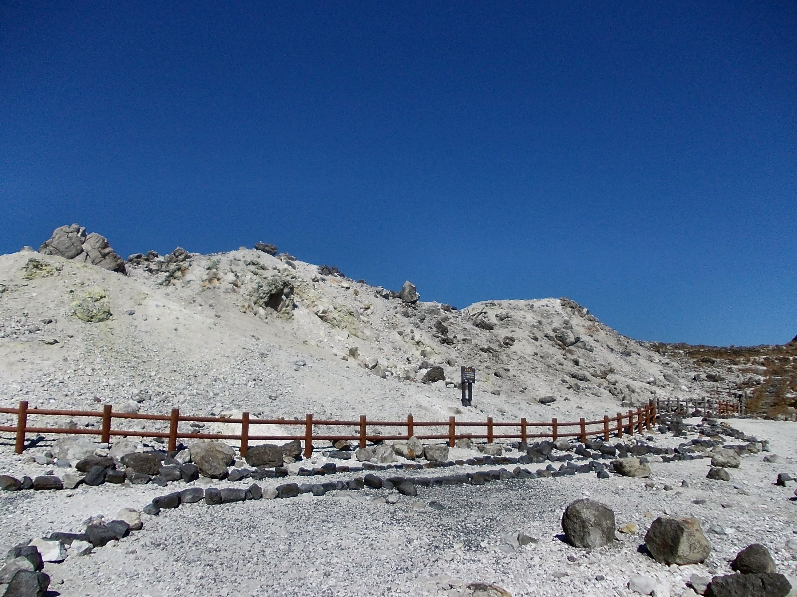 Mount Io, Ebino, Miyazaki, Japan